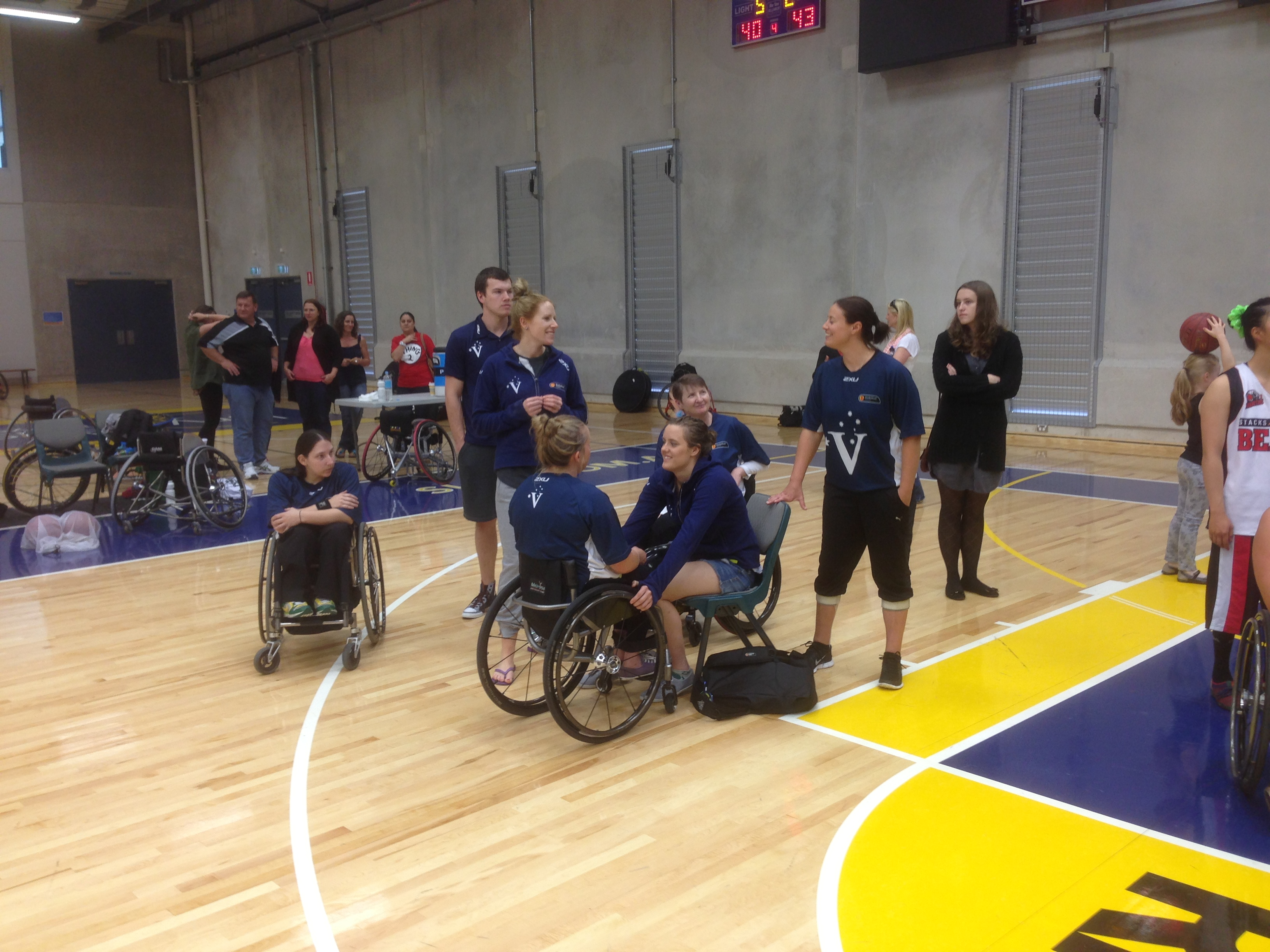 Left to right: Melanie Domaschenz, Brett Paxton (coach),Alice Hammond, Shelley Chaplin, Ellie Cole, Lynne Panayiotis, Leanne del Toso